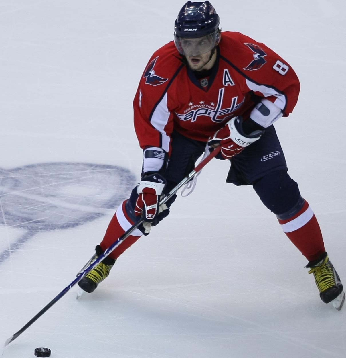 Alex Ovechkin of the Capitals